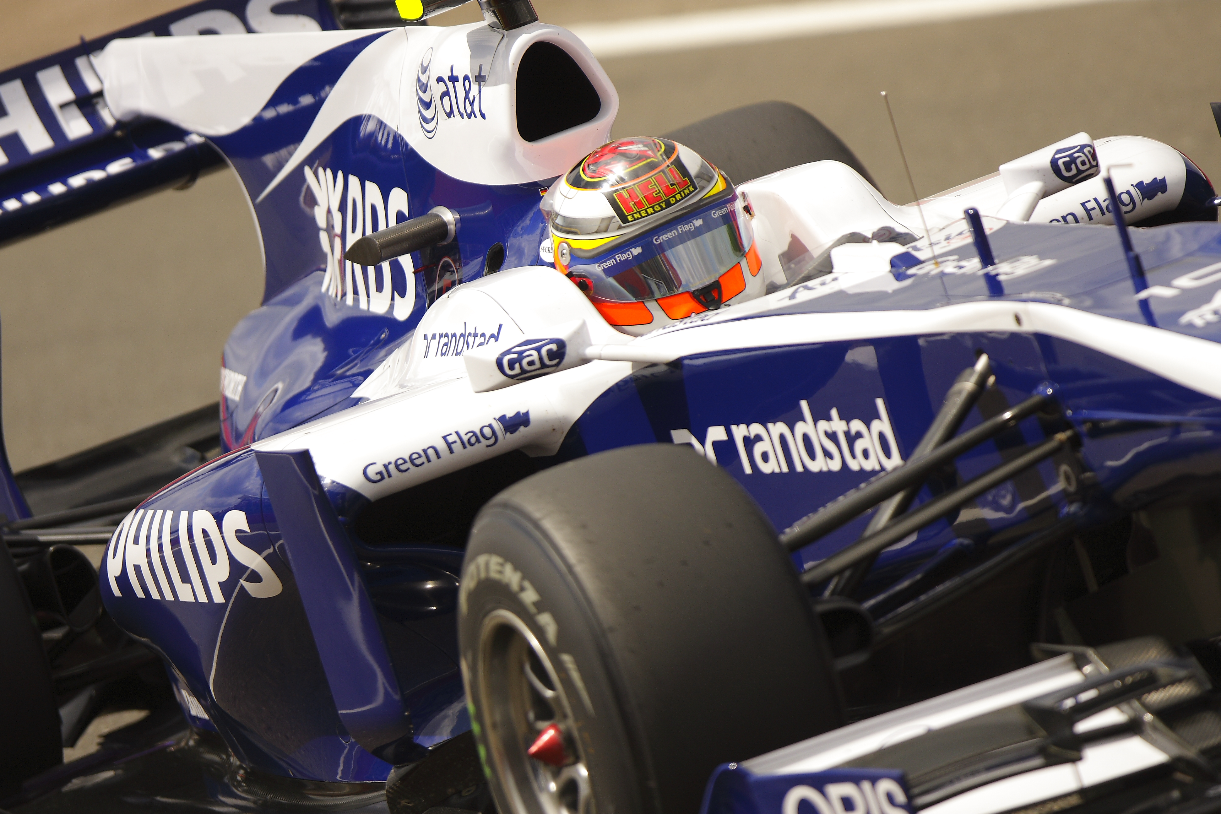 Nico Hülkenberg driving for WilliamsF1 at the 2010 British Grand Prix. Photographer Andrew Hoskins.